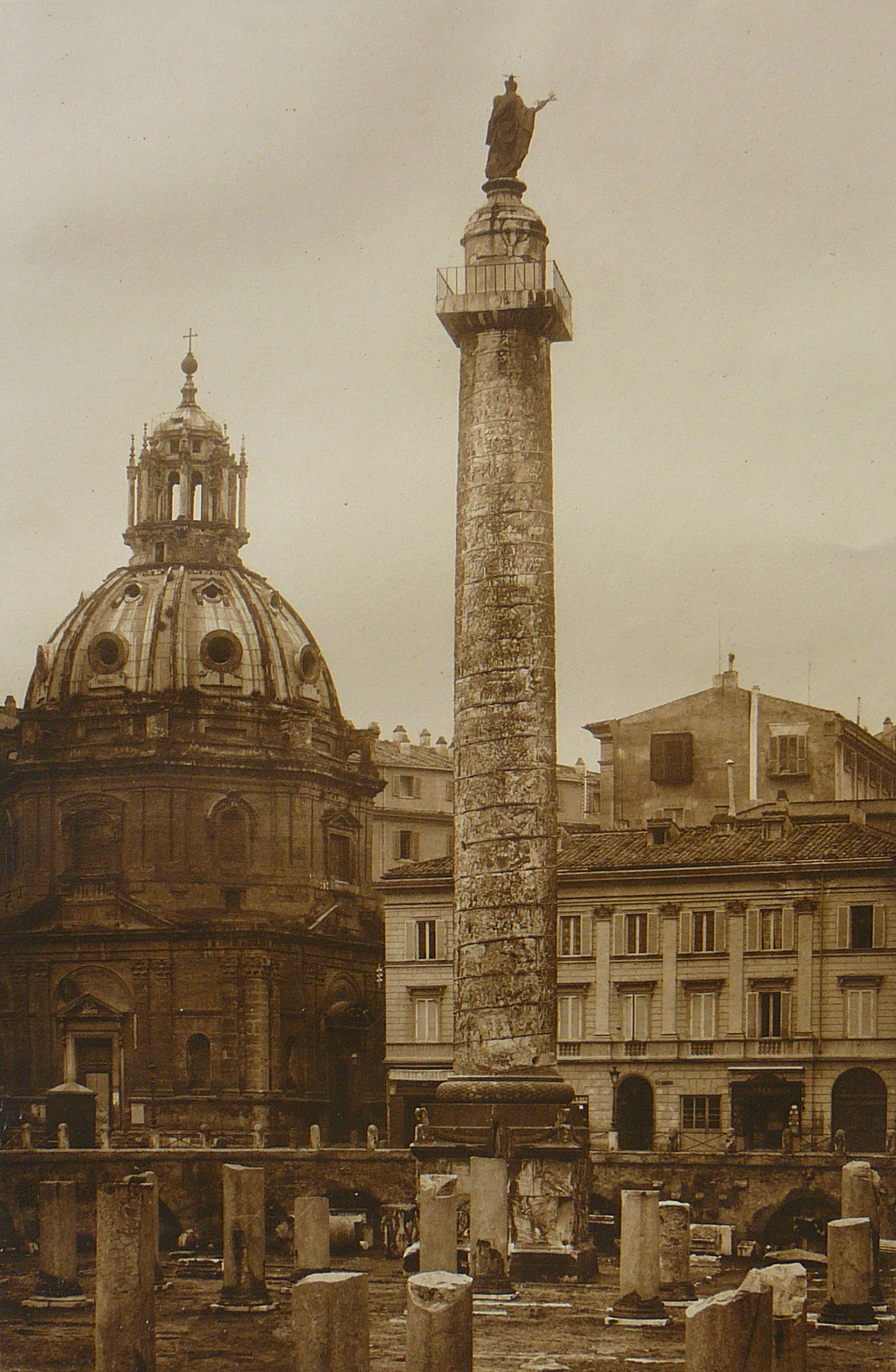 Trajan's Column circa 1896